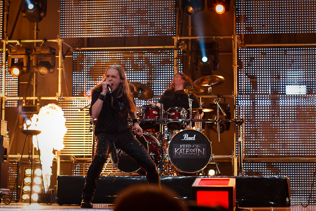 Keep of Kalessin live at Oslo.